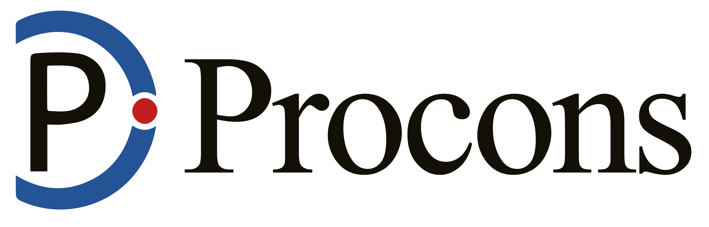 Logo